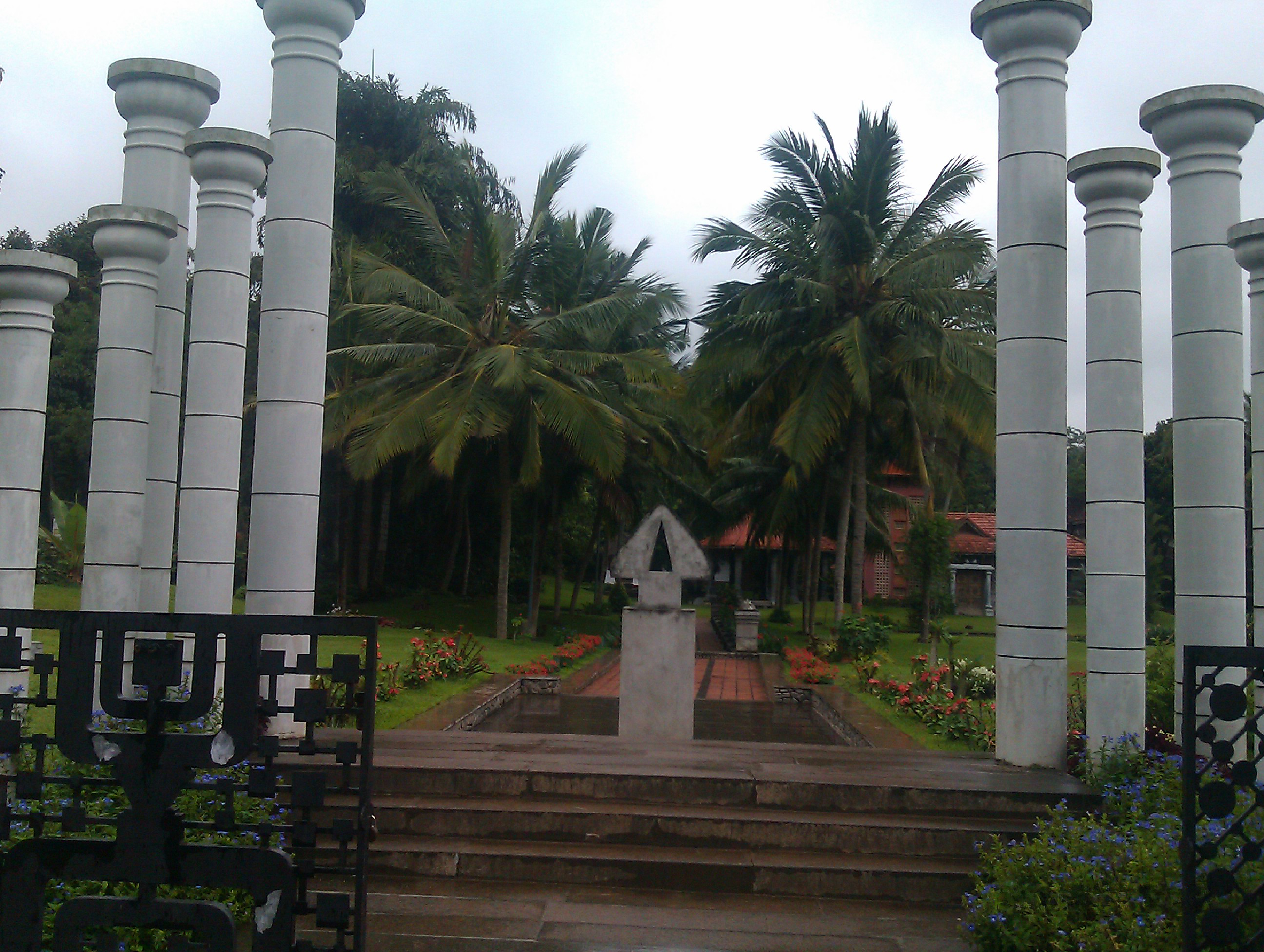 mahakavi kumaran ashan memorial thonnakkal front entrance trivandrum